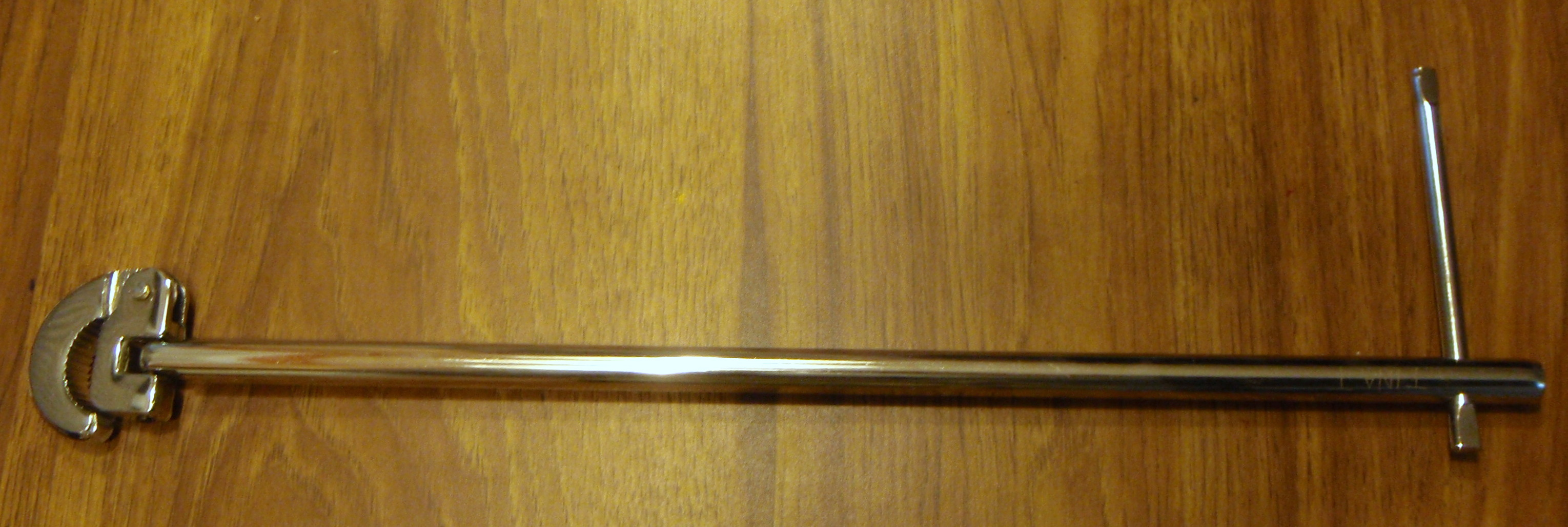 a sink wrench